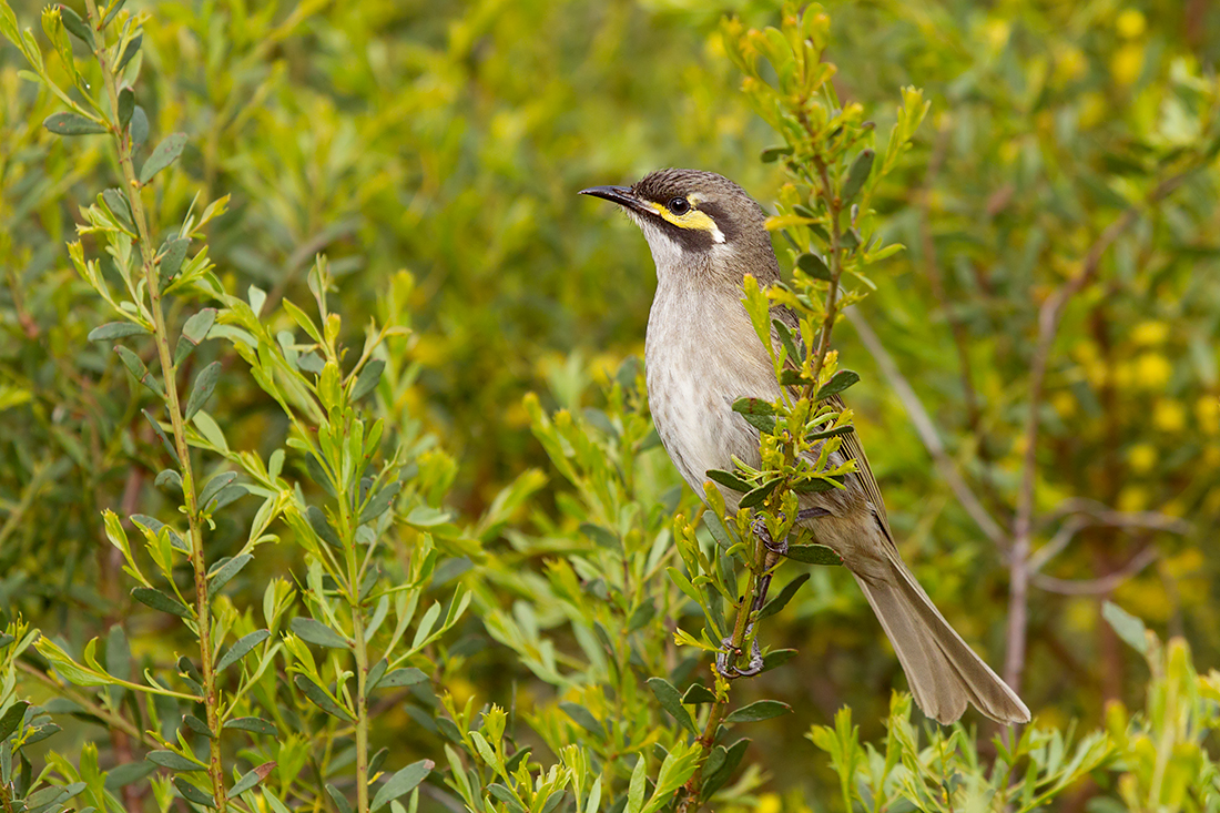 Just after feeding its chicks in our front yard, Strangways Vic.